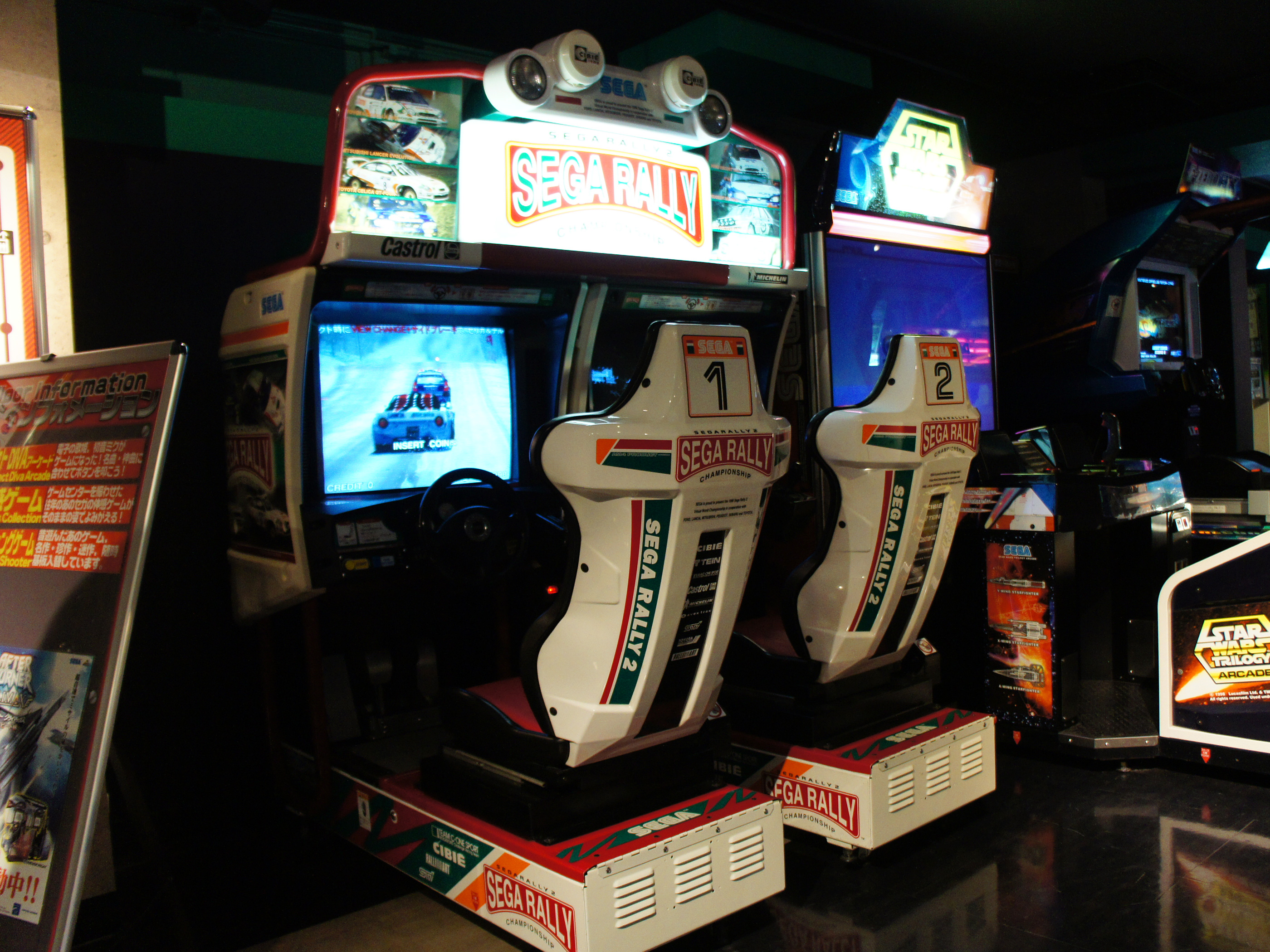 SEGA's Segarally2.